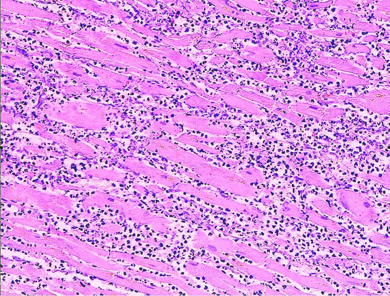 Microscopy image (magn. ca 100x, H+E stain) from autopsy specimen of myocardial infarct (2 days post-infarction)